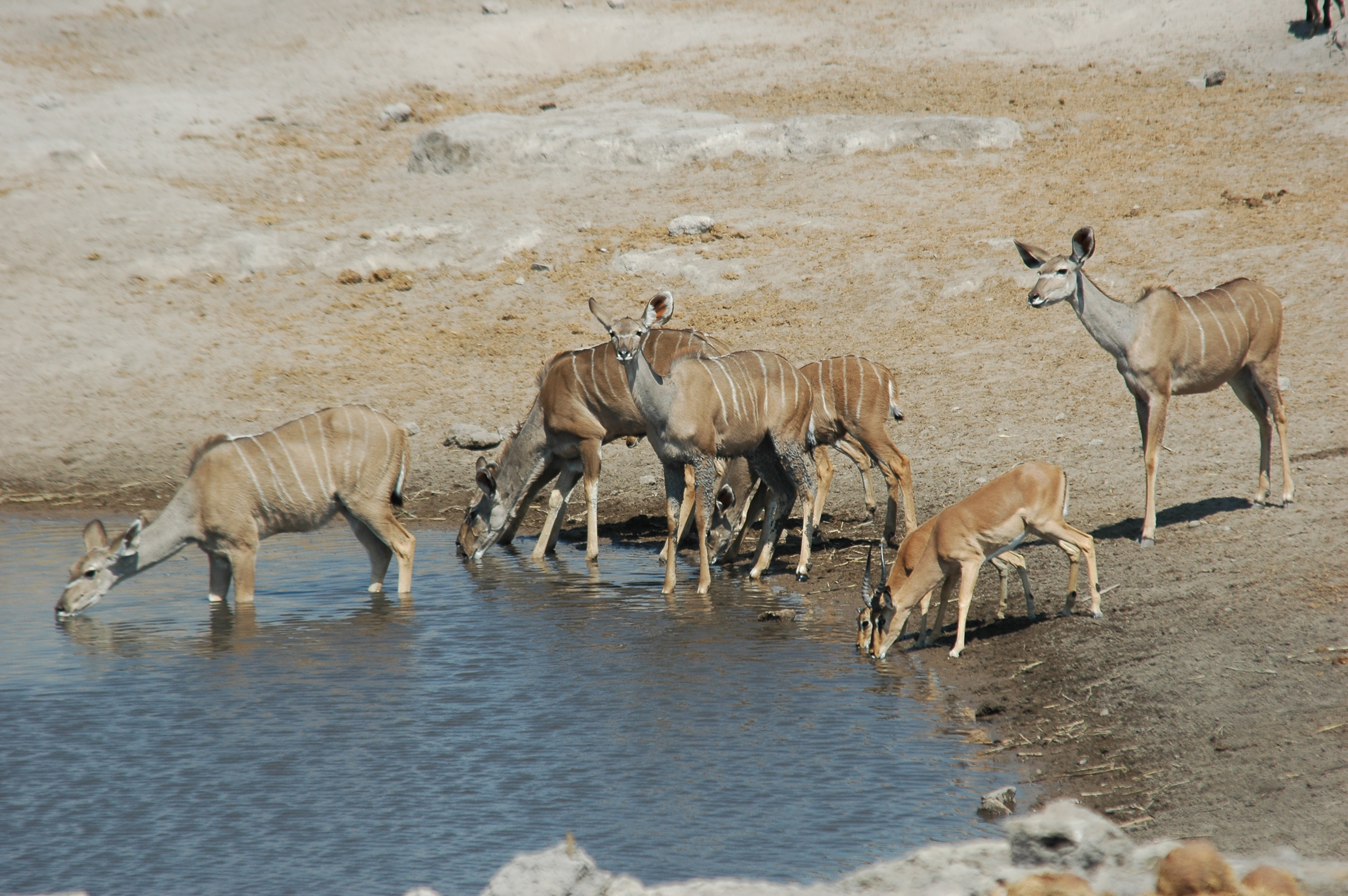 Female Kudu and a couple of Black-faced Impala at Chudop waterhole, Etosha National Park in Namibia.